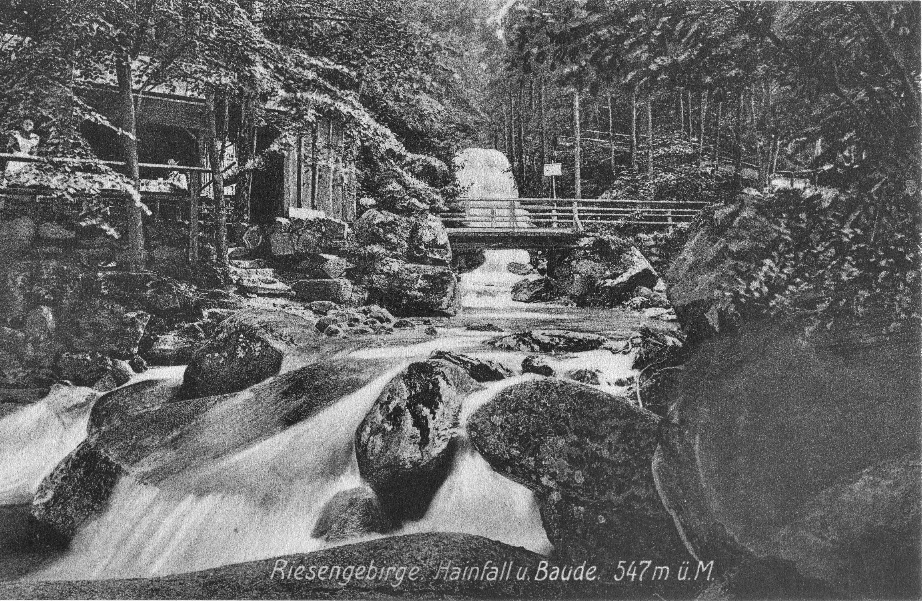 Podgórna Waterfall (10 m), near Przesieka, Karkonosze Mountains, Germany now Poland.